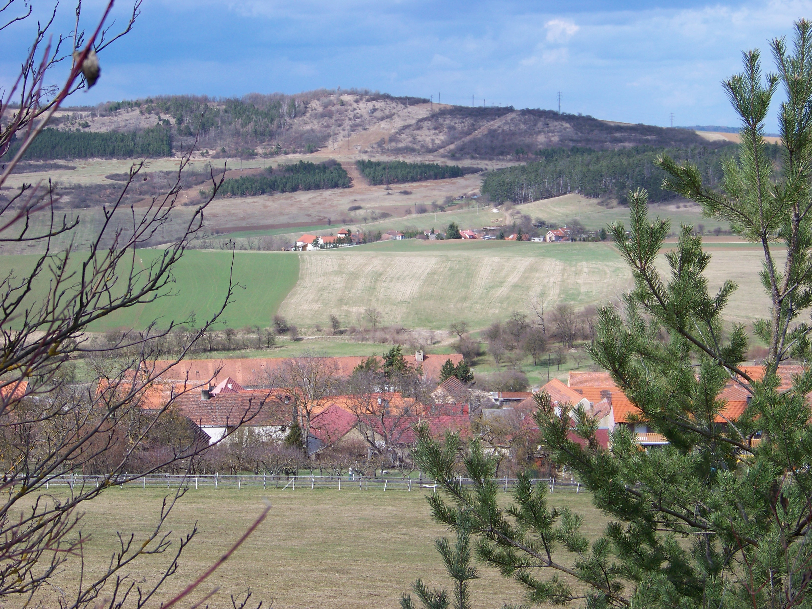 Koněprusy and Bítov, Beroun District, Central Bohemian Region, the Czech Republic. Velký Kosov hill. - OpenStreetMap(Info)